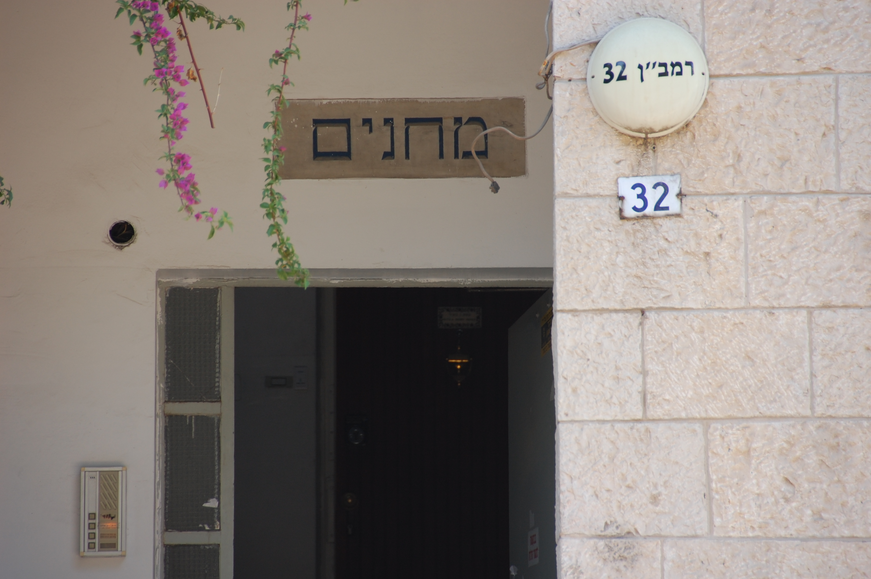 Mahanaim house, Rehavia (the word machanaïm comes from biblical verse Genesis 32,3)